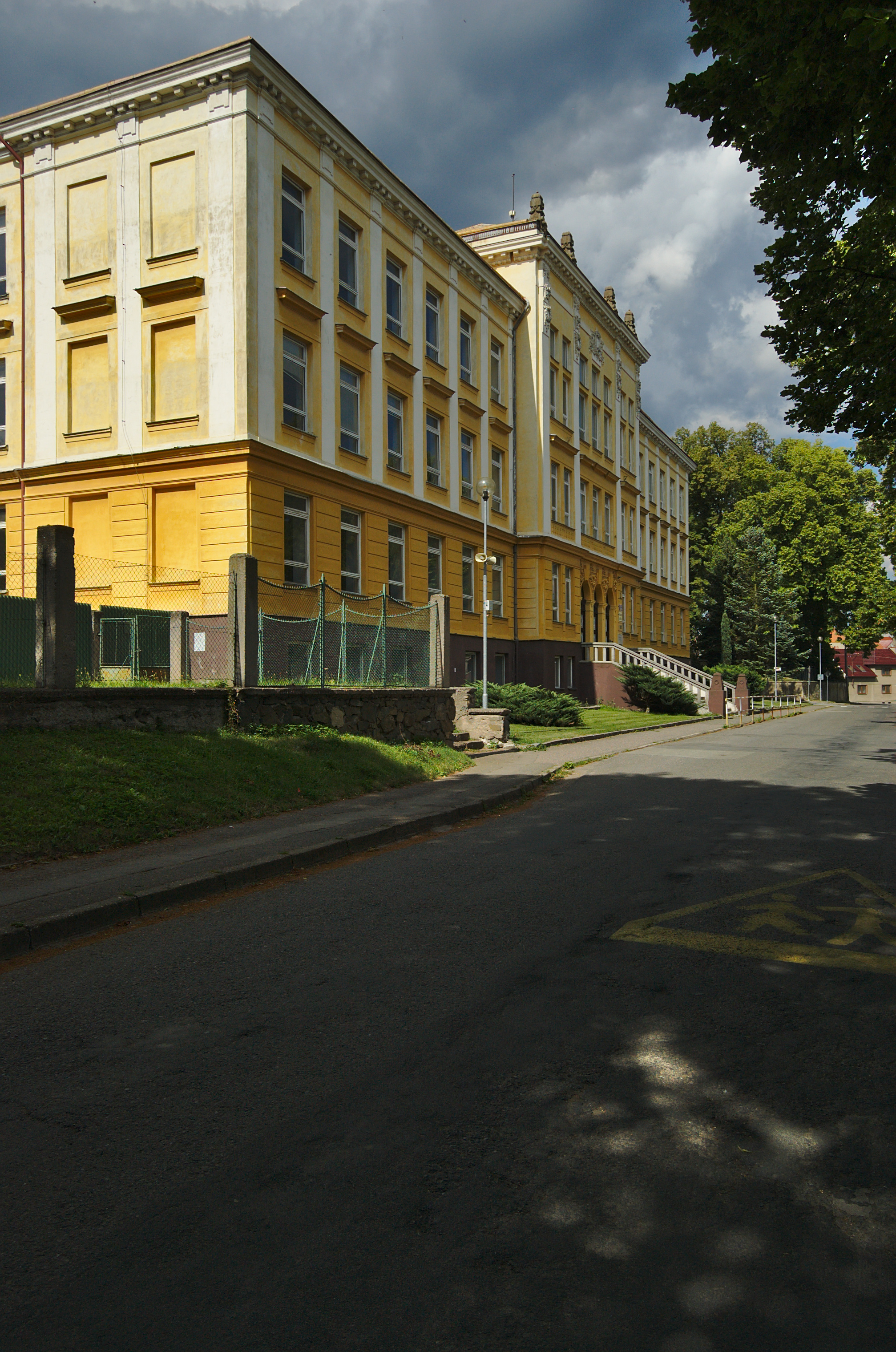 Jevíčko, Svitavy District, Czechia.